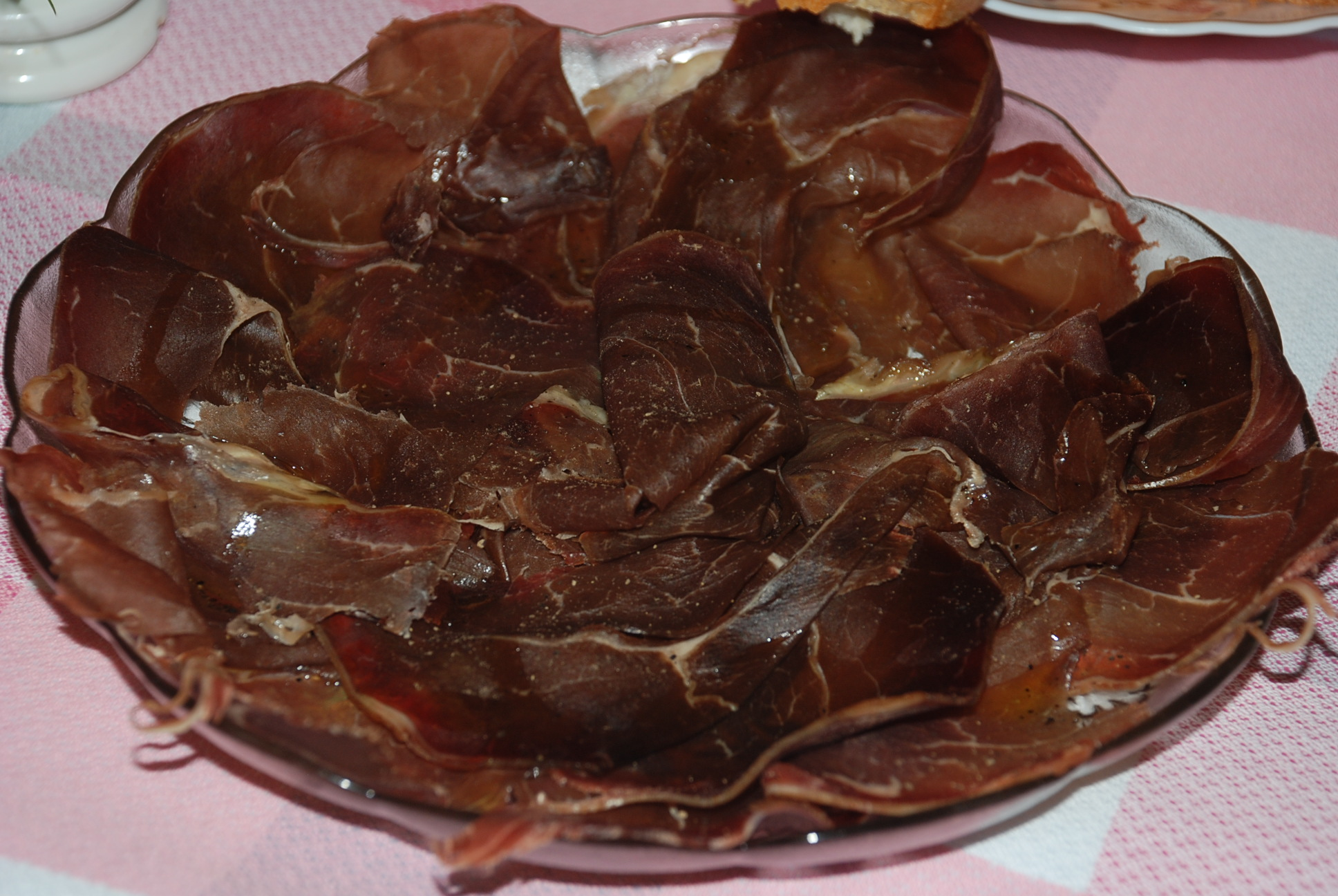 Foodstuffs in the province of Palencia: Villarramiel horse cecina with olive oil and pepper (Palencia, Castile and León).